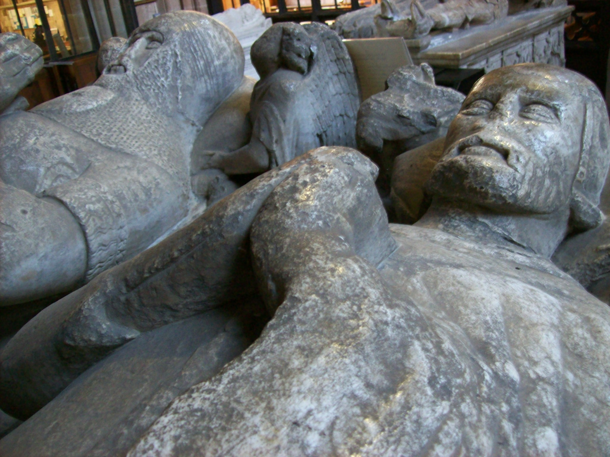 Monument to John Cockayne (d.1372) and his son Edmund (d.1403), St. Oswald, Ashbourne